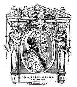 Illustratio from "Le Vite" by Giorgio Vasari, edition of 1568. For the artist portrayed see filename